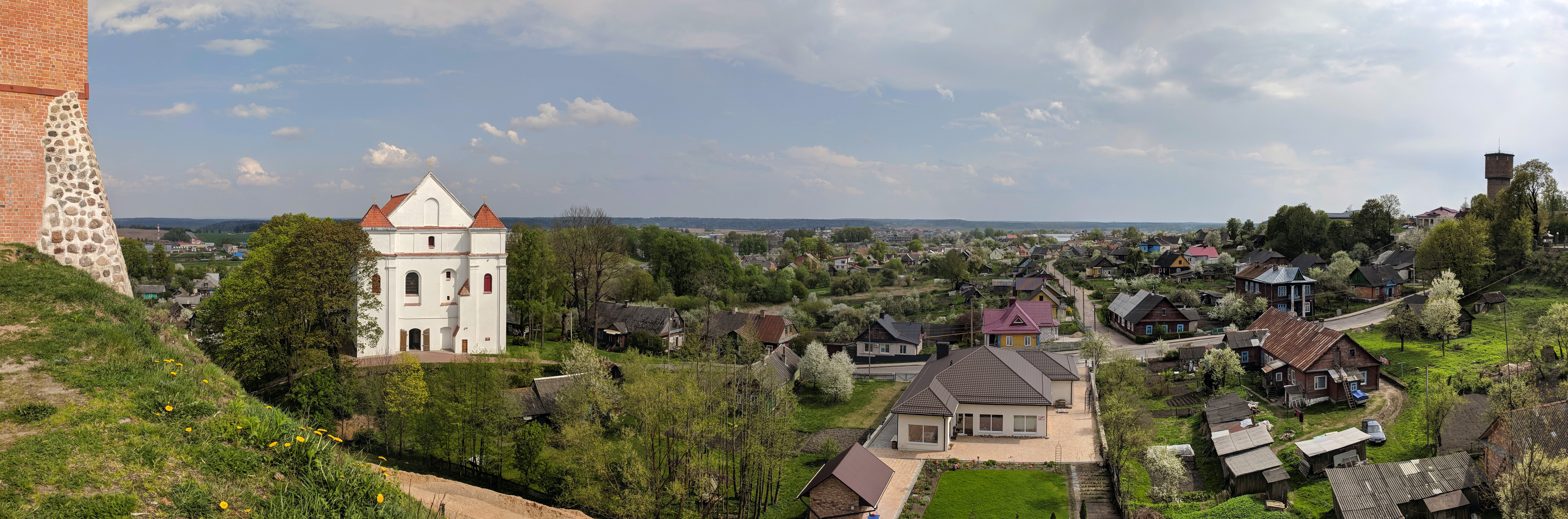 Navagrudak